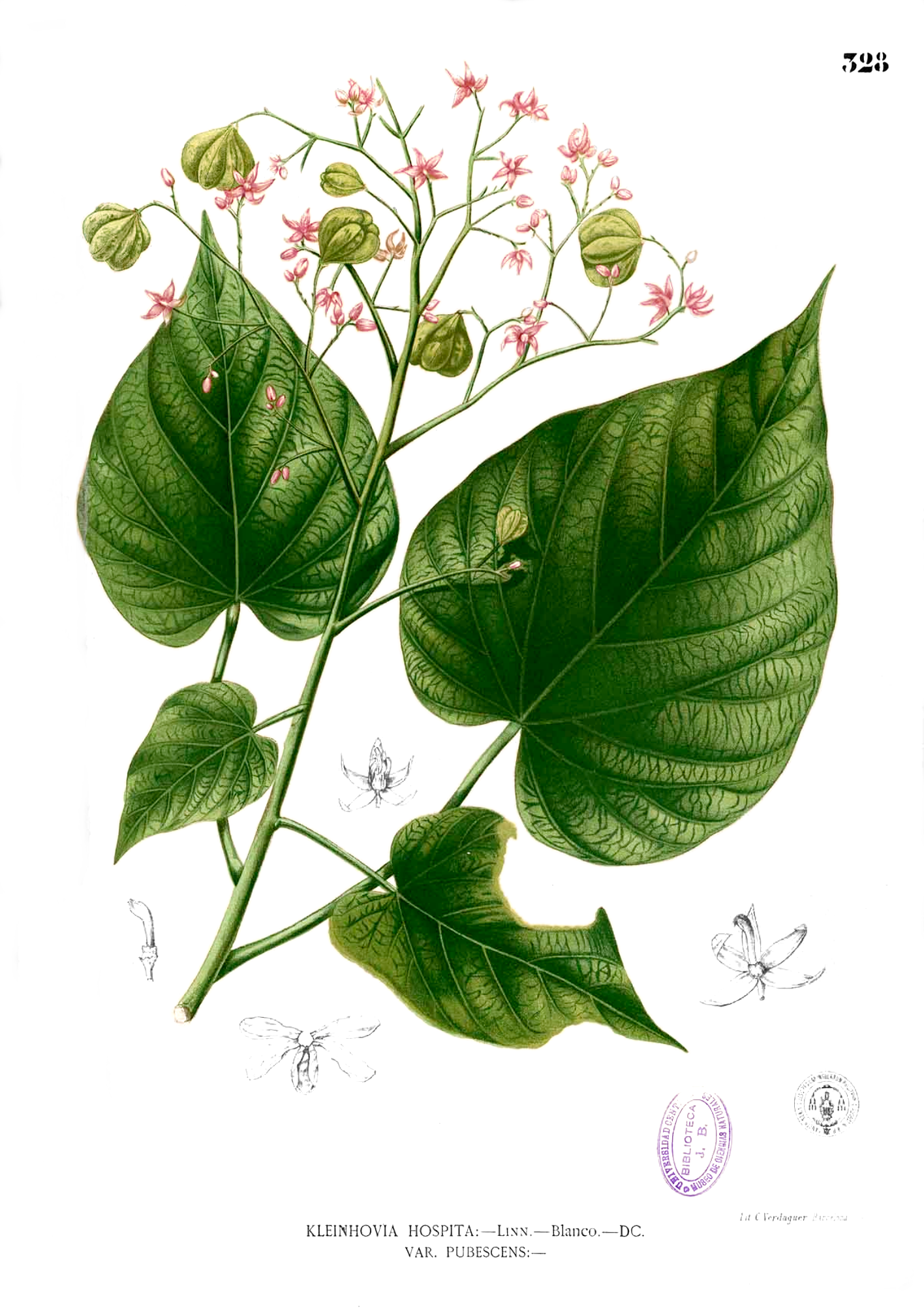 Plate from book